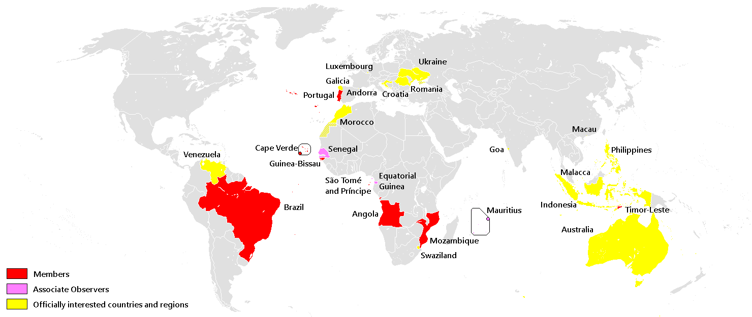 Edited map from Ceha, updated officially interested countries and regions as of 24/08/2010